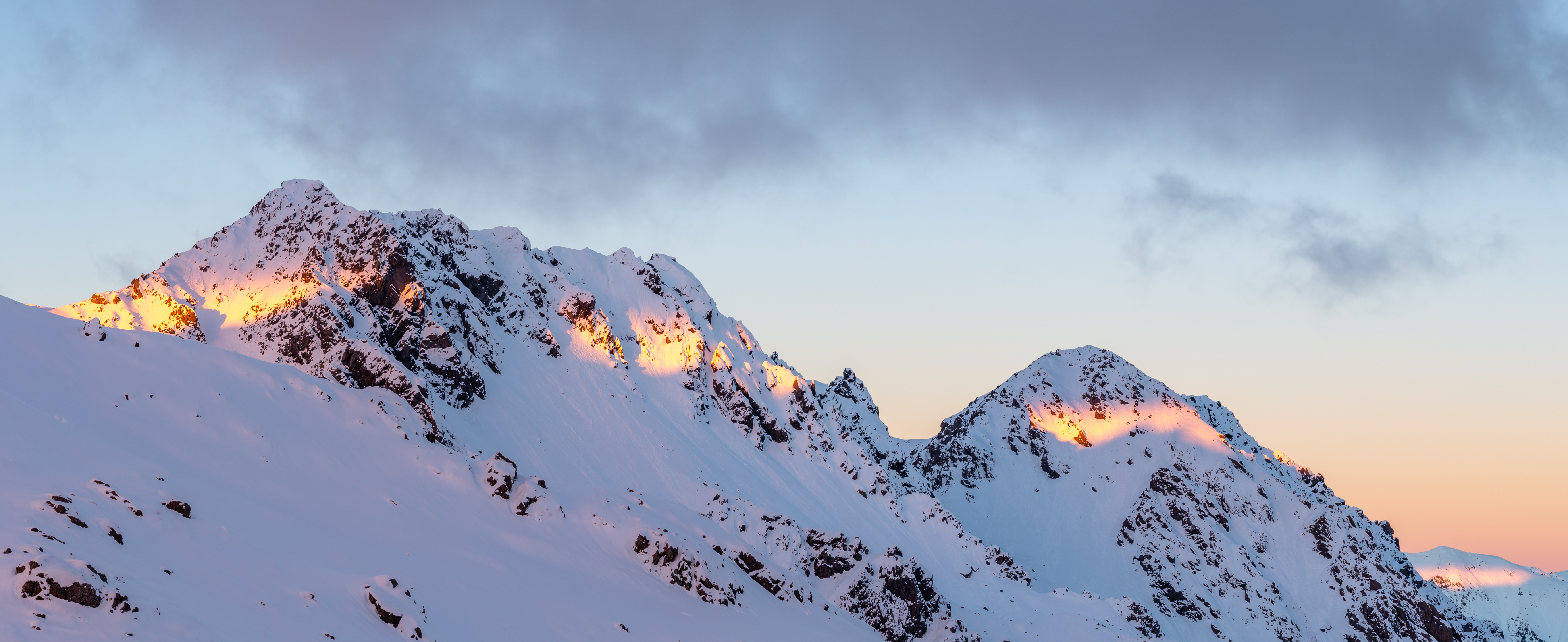 Peaks between Hukere Stream and Shift Creek valley, Nelson Lakes National Park, New Zealand. The picture was taken during the sunset from a small hill by Angelus Hut